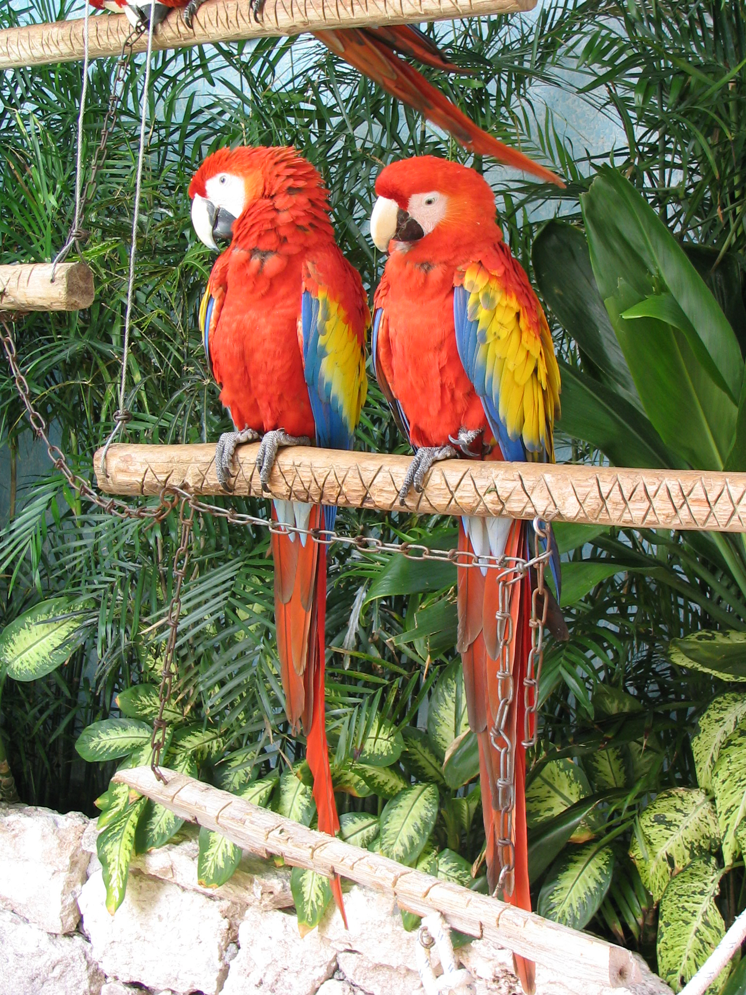 enScarlet Macaw (Ara macao) - two parrots on a perch.